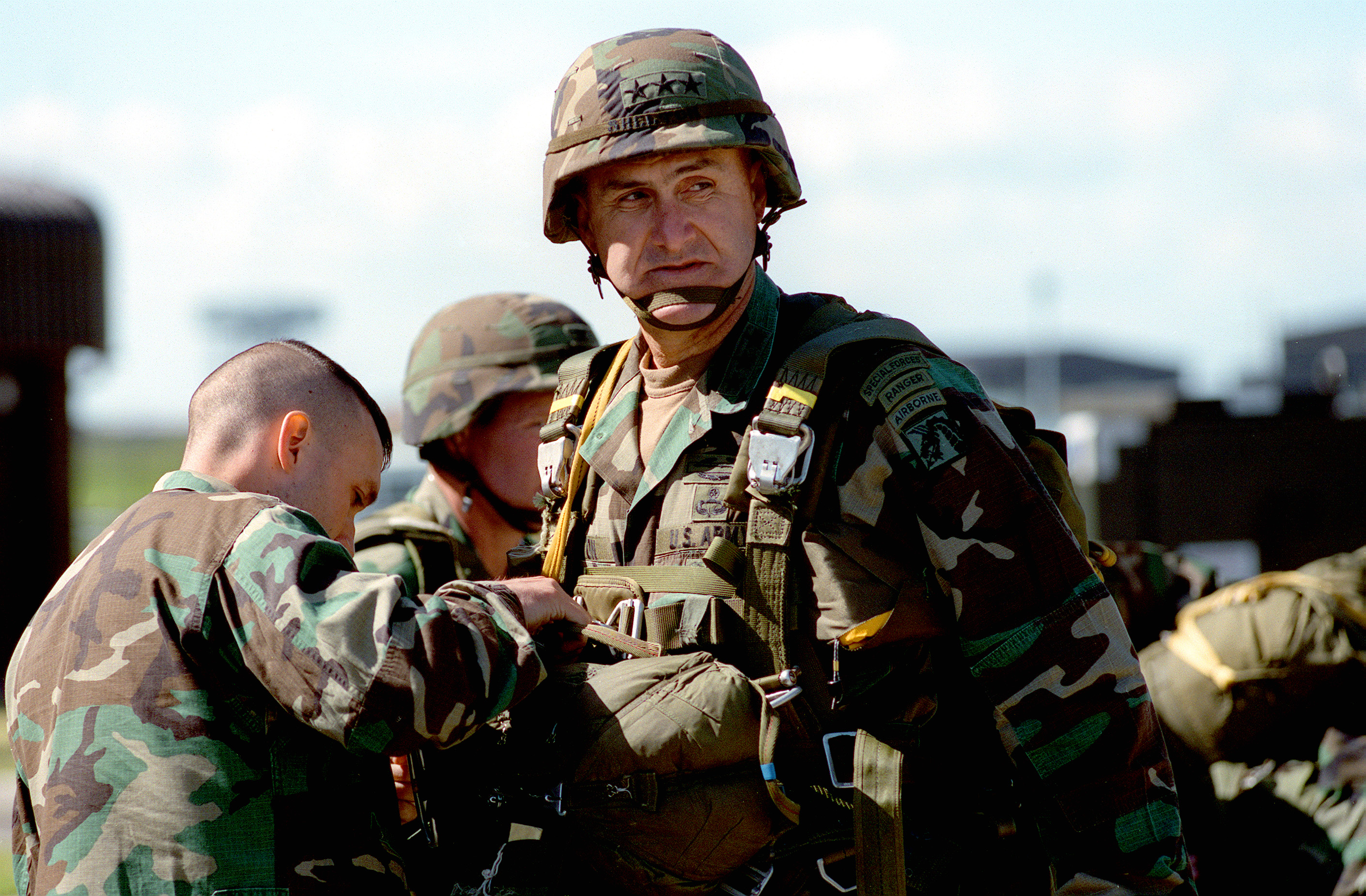 LTG Henry Shelton prepares to jump with his troops in France to commemorate the fiftieth anniversary of the D-Day landings, June 1994.